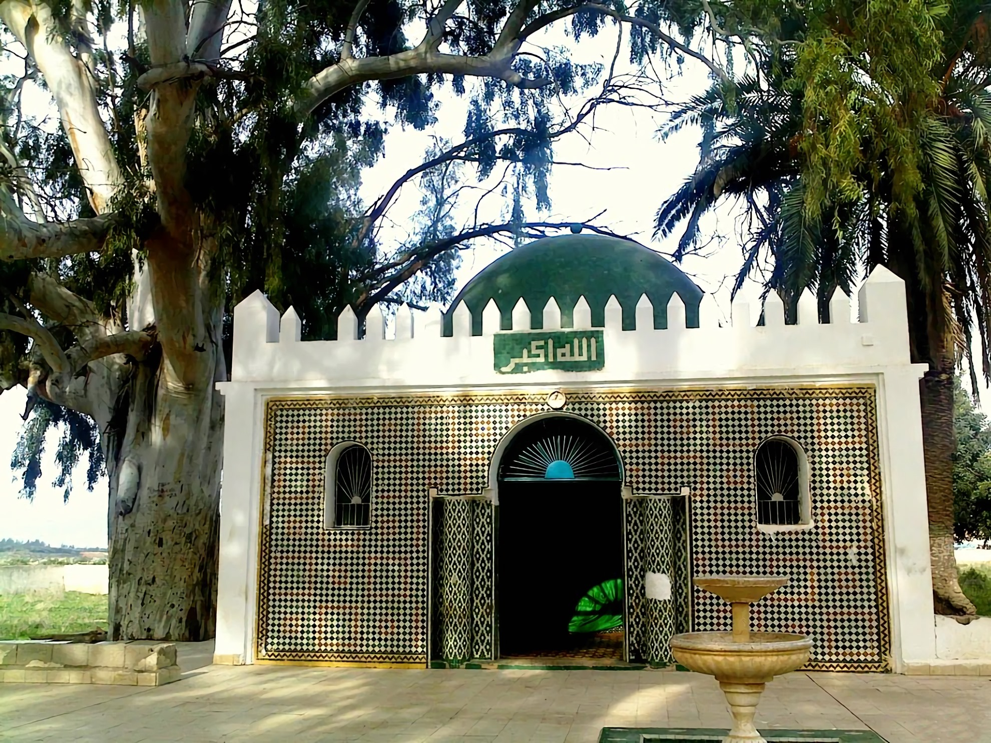 Mausolée Sidi Ahmed Aberkane.